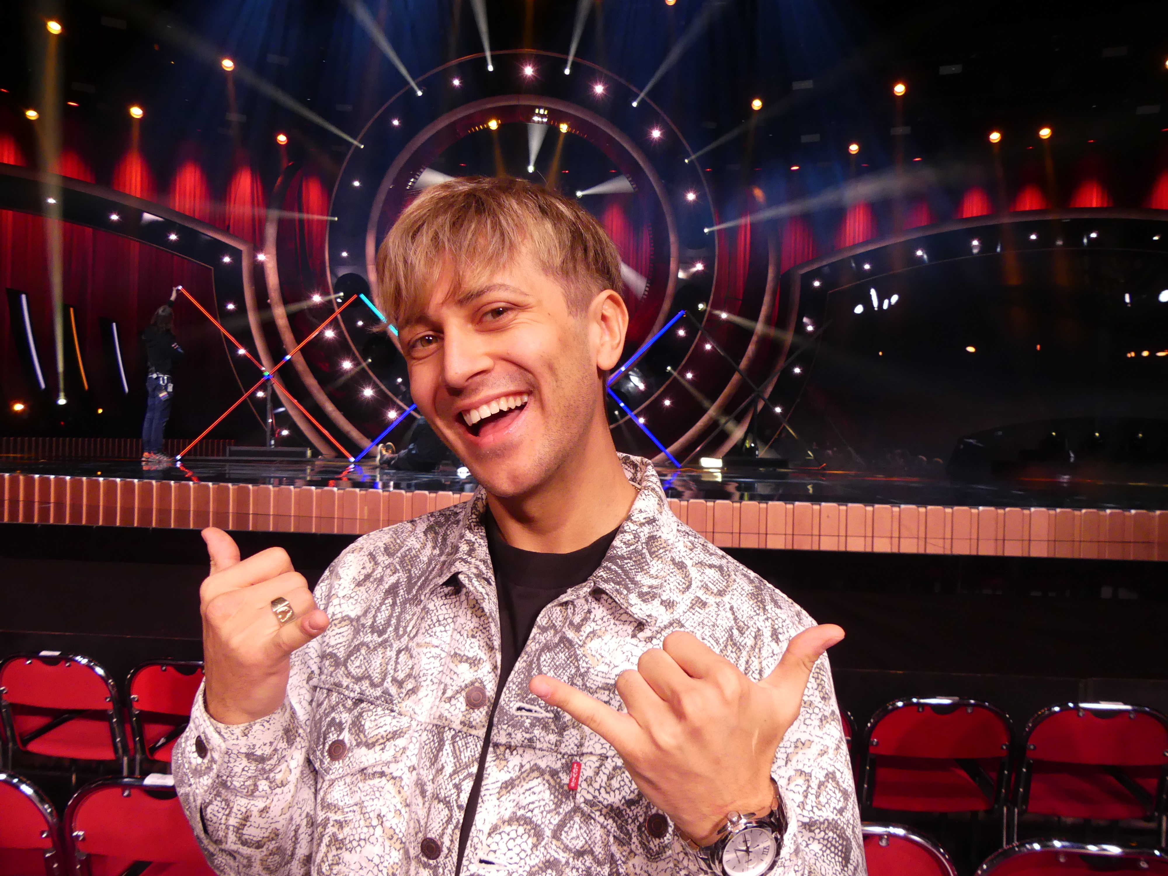 Melodifestivalen 2019, part contest 2, Malmö, Sweden